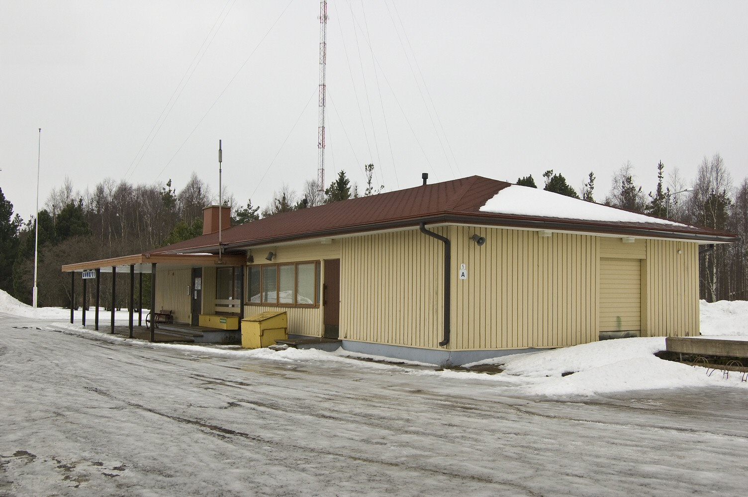 Ruukki railway station, Siikajoki, Finland.